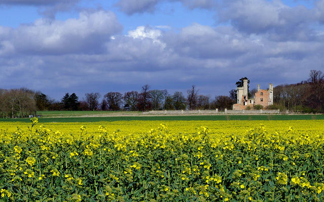 Haverholme Priory Ruins The remains of Haverholme Priory as seen across the fields of oil seed rape